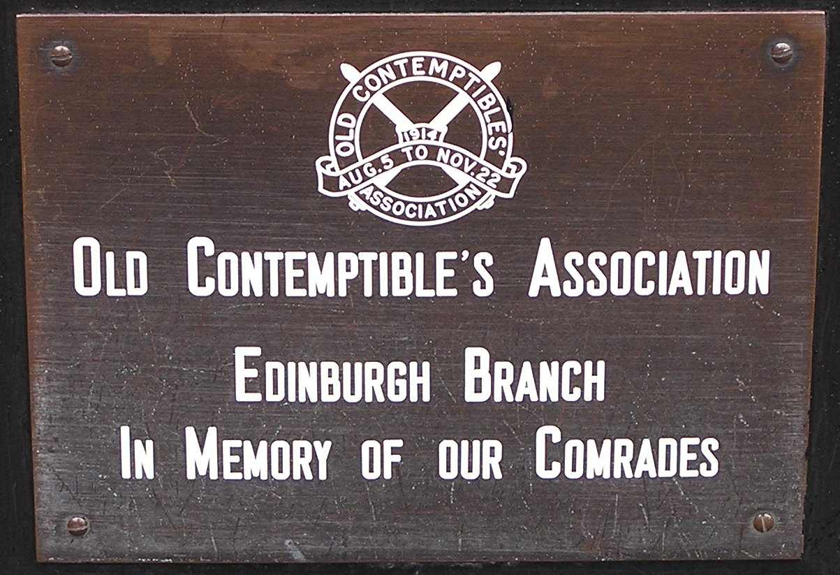 Plaque on a bench at Edinburgh Castle commemorating Old Contemptibles. Taken by Storkk.